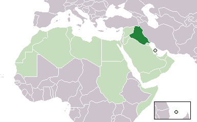 Map of Iraq, Arab States